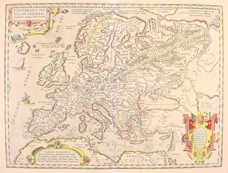 "Europam, Sive Celticam Veterem.", Europe at the time of the Celts, from the Parergon